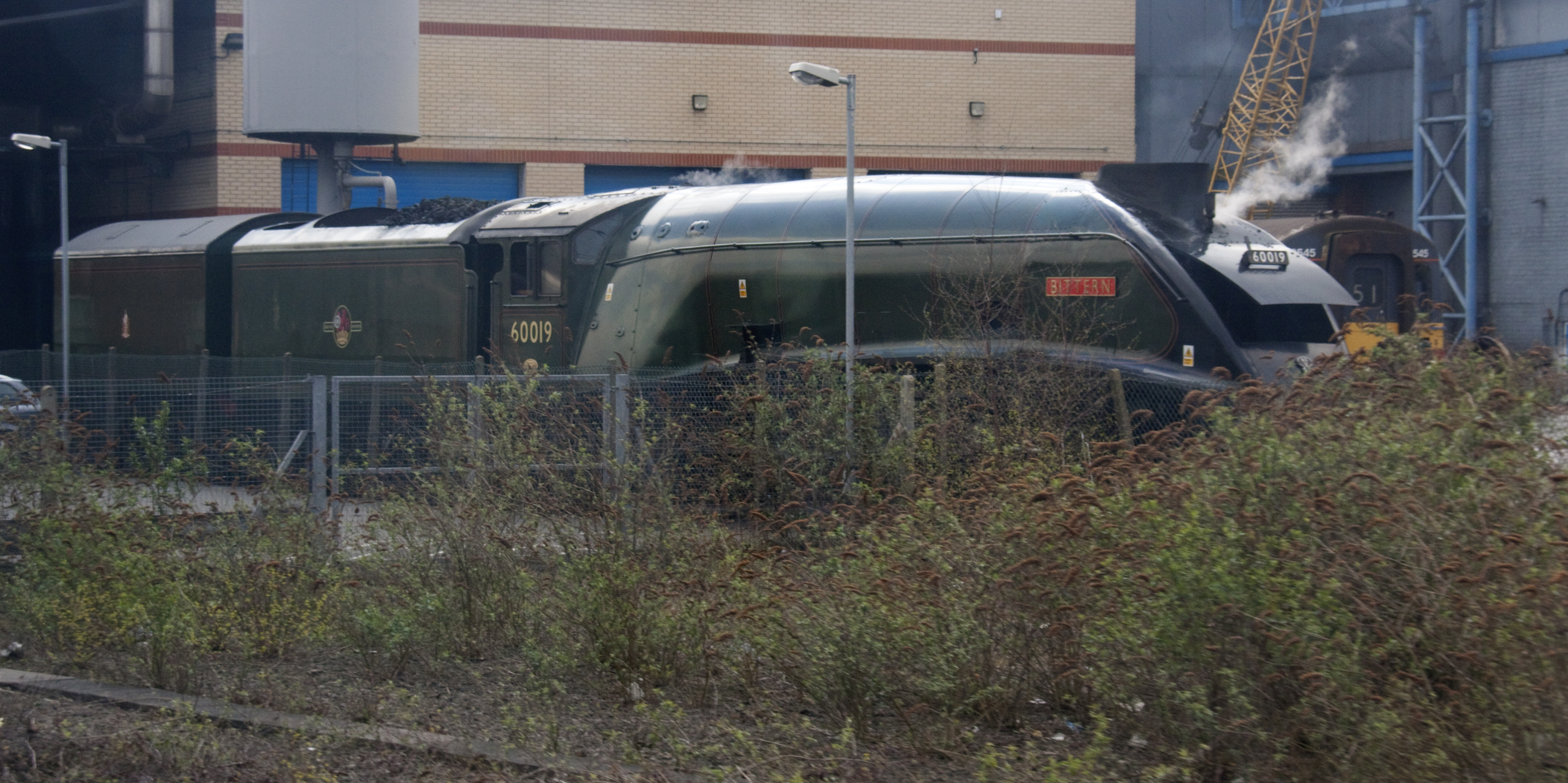 Bittern at the back of the York National railway museum. Taken from the train while on the way to Edinburgh